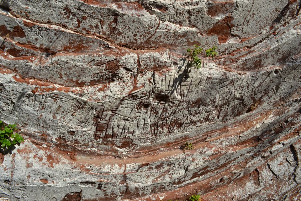 Called "Ita Letra" by the local natives, this fertility symbols are believed to be thousand years old.